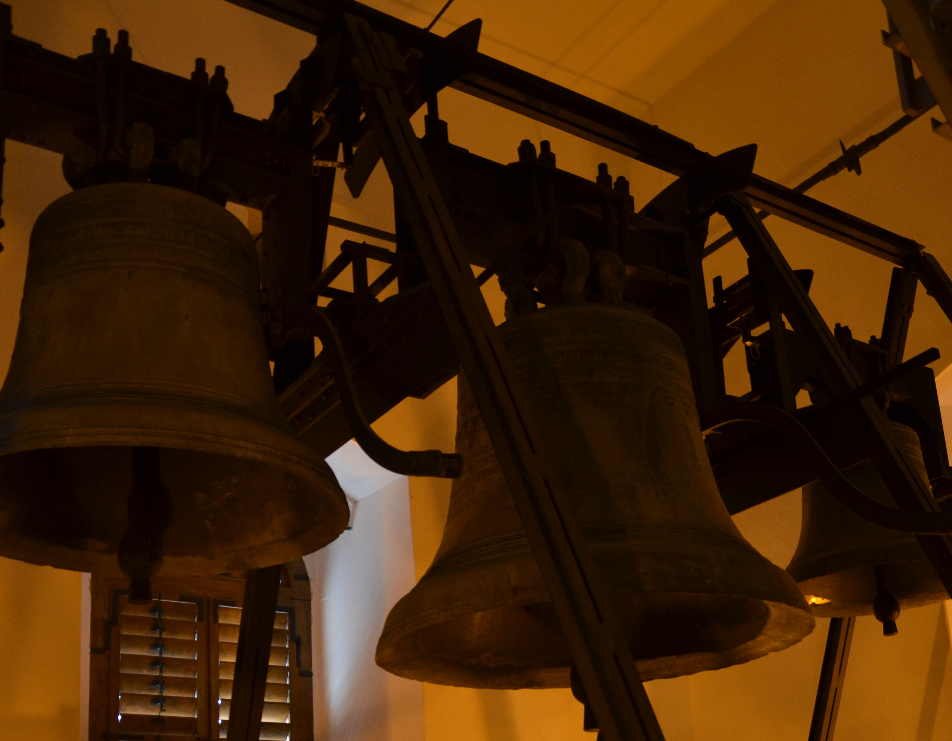 Urban-Glocke von Stefanus Meutel und Georg Olivier, Krosno